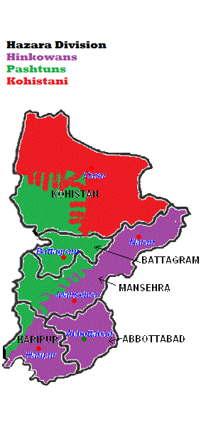 Ethnic Map of Hazara Division